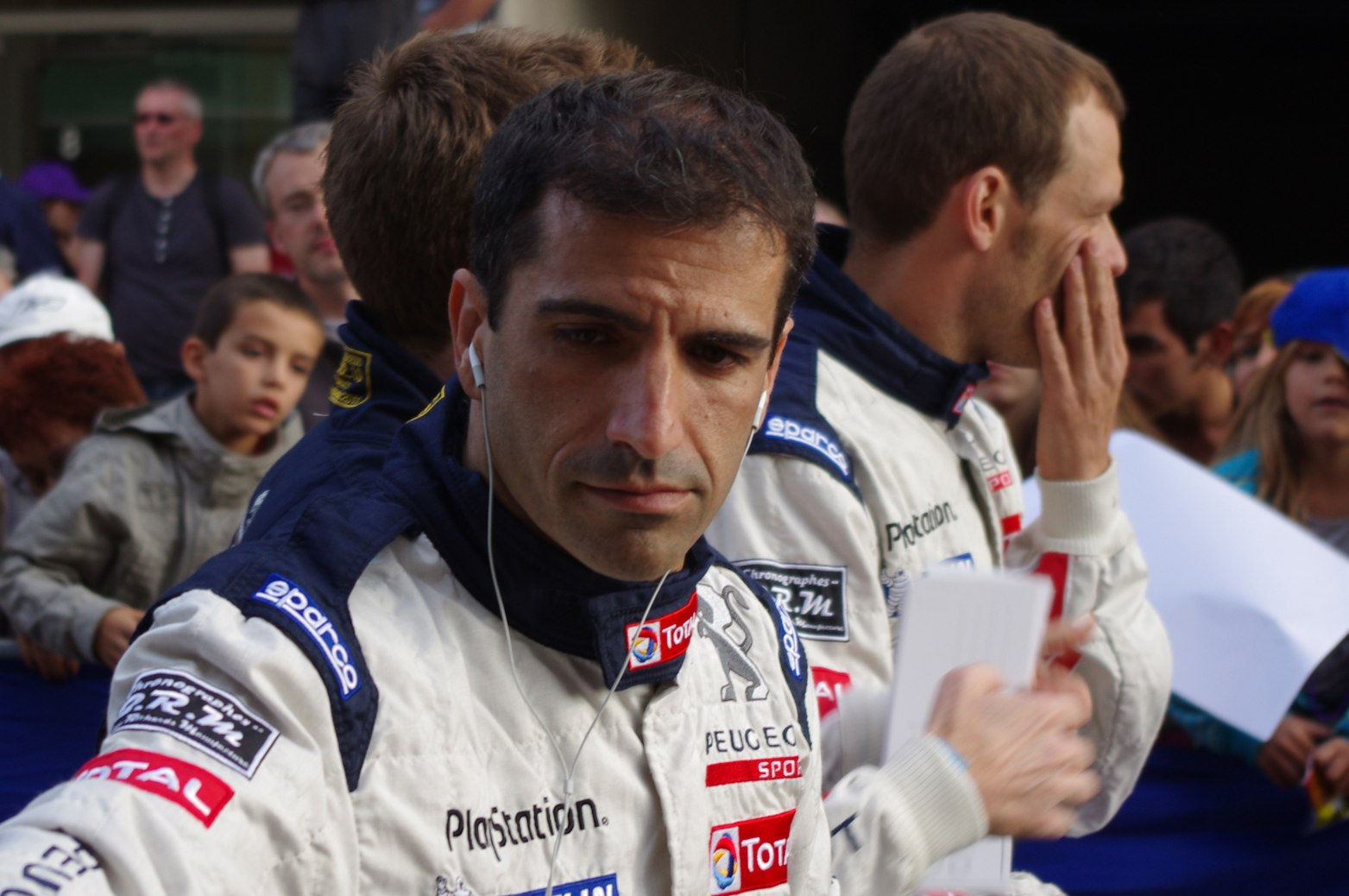 Marc Gené at the Le Mans 24 Hours 2011 Drivers' Parade